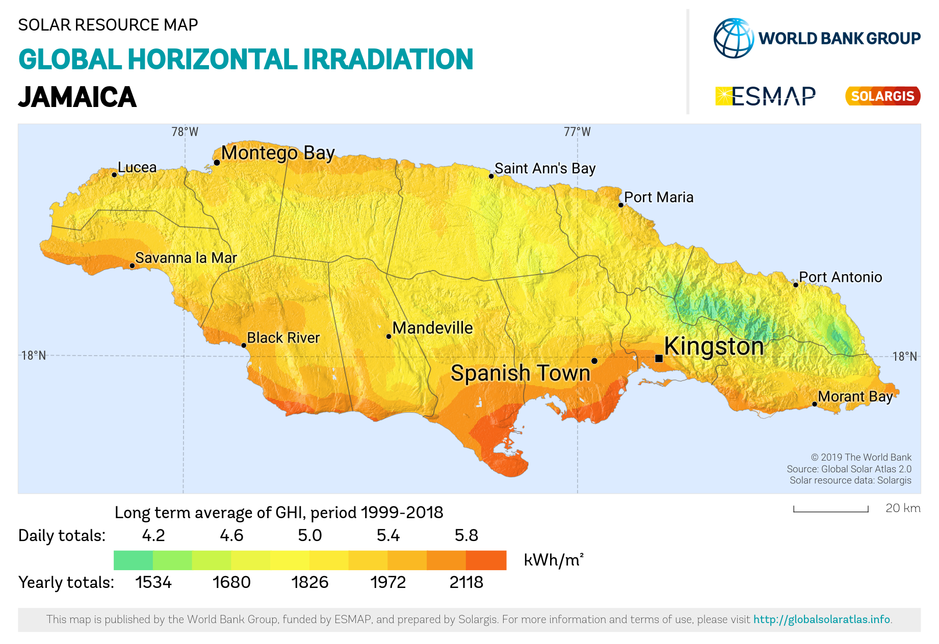 Global Horizontal Irradiation of Jamaica